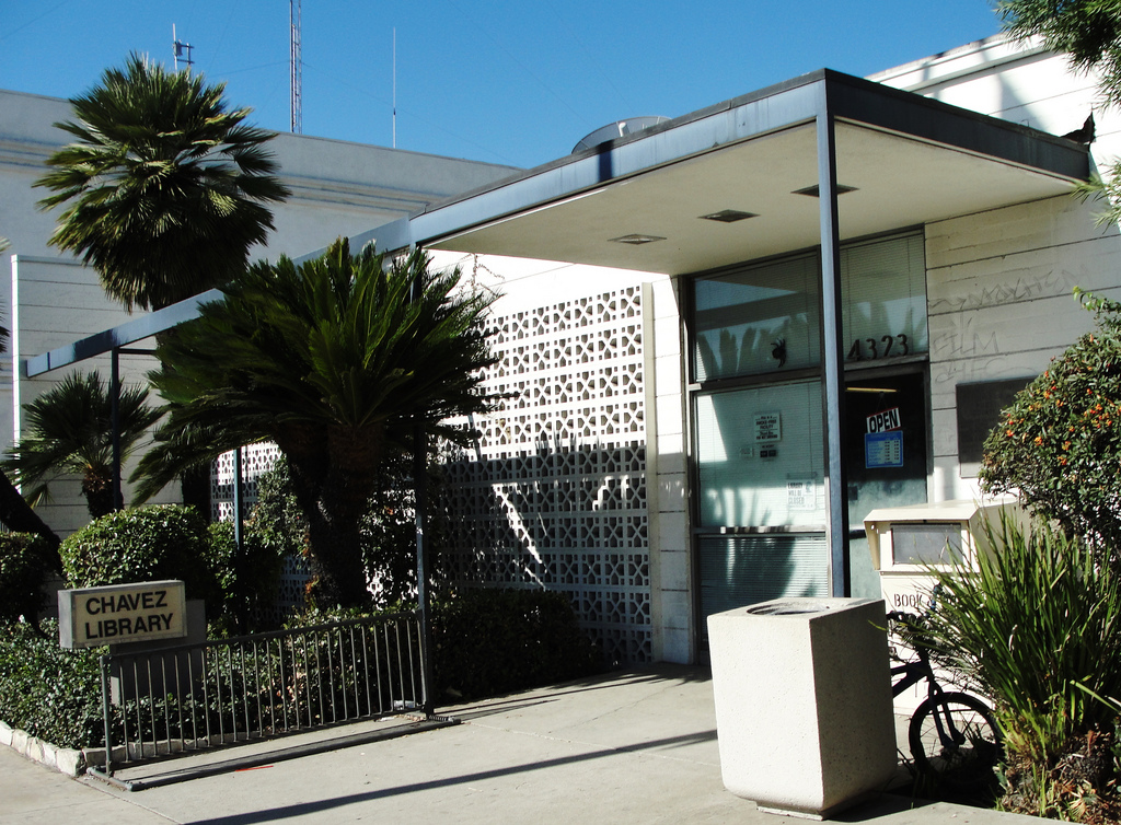 Cesar E Chavez Public Library in Maywood, CA